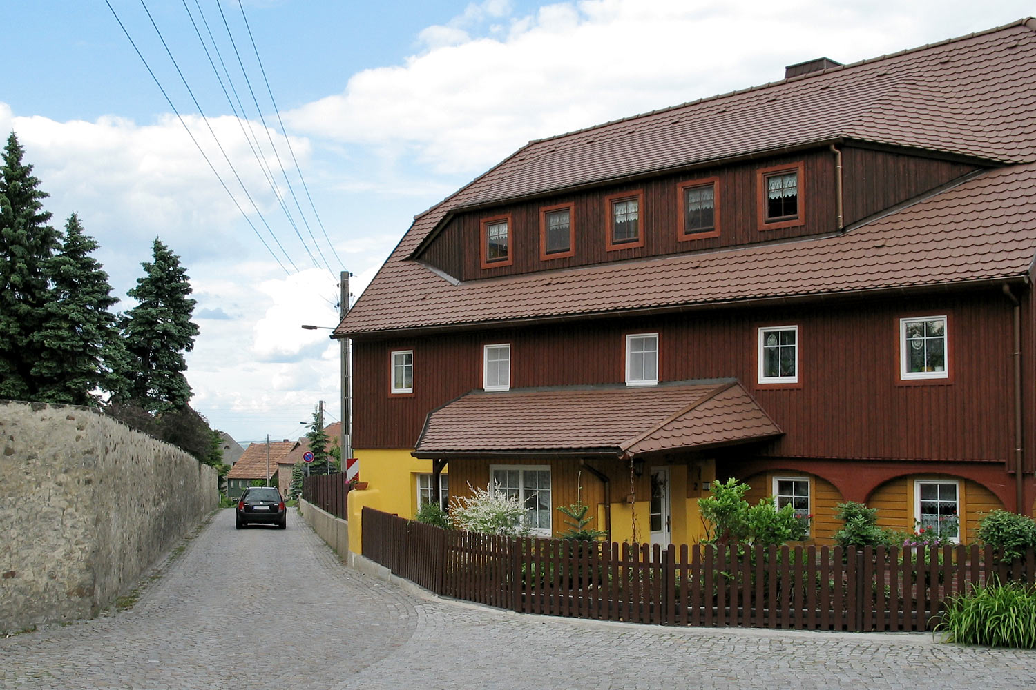 Street Blutgasse (German for “blood street”) in Hochkirch, Saxony, Germany.